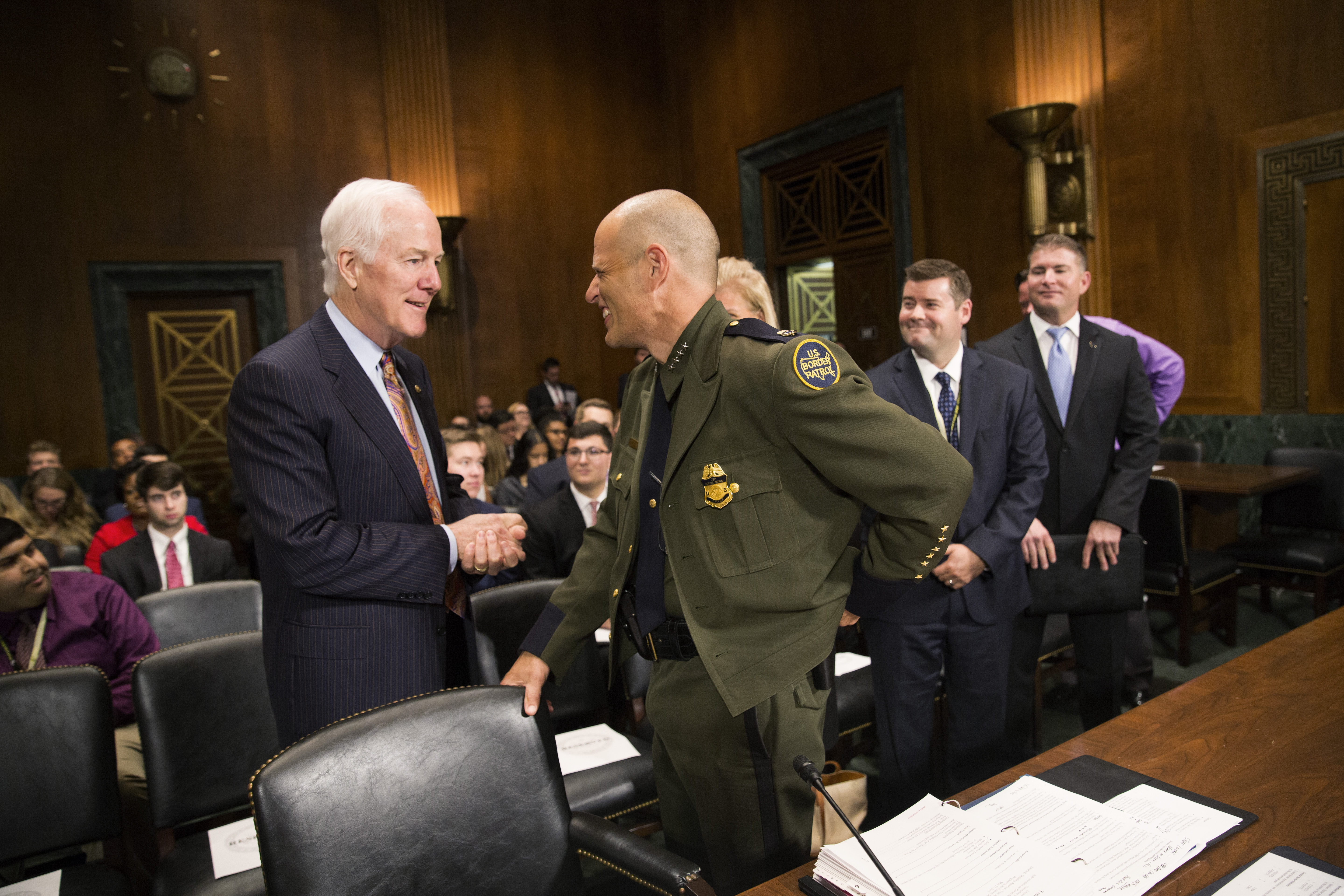 Rep. John Cornyn greets U.S. Customs and Border Protection Acting Deputy Commissioner Ronald D. Vitiello prior to a hearing before the Senate Judiciary Committee, Subcommittee on Border Security and Immigration, entitled "Building America's Trust through Border Security: Progress on the Southern Border" in Washington, D.C., May 23, 2017. U.S. Customs and Border Protection Photo by Glenn Fawcett